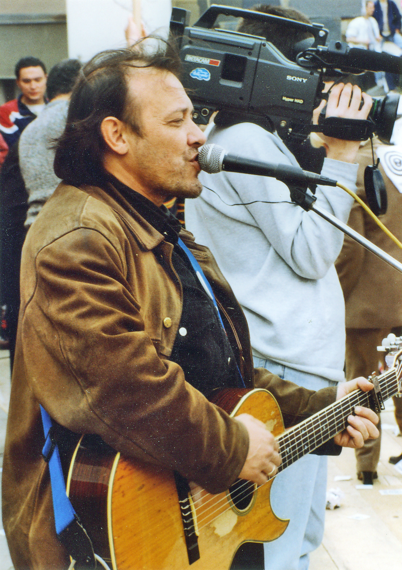 Nenad Milosavljević, alias Neša Galija at one of the protests during the NATO aggression against Serbia, 1999